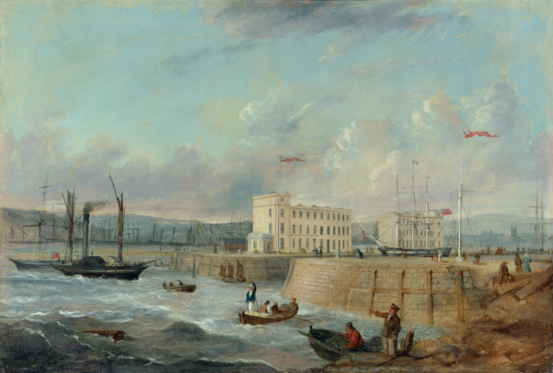 Pierhead painting, Alexander Wilson (1796-1874), 1840. Photo credit: National Museum of Wales.